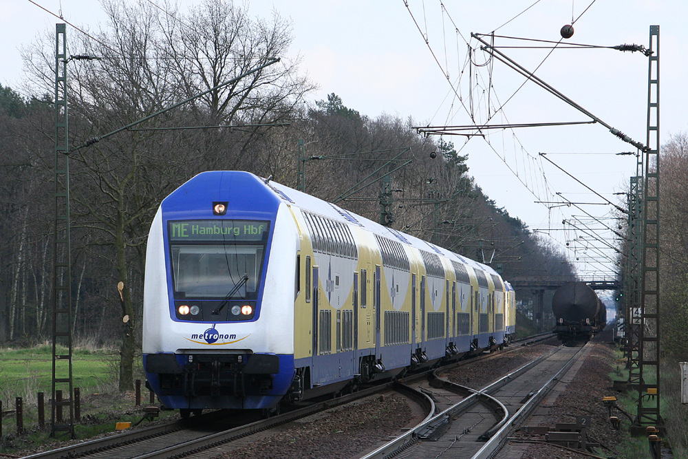 The front (driving) carriage of a Metronom regional train which is passing through Radbruch station.